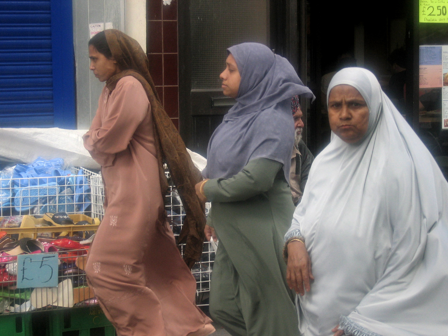 Bangladeshi women at Whitechapel Market, in east London, UK